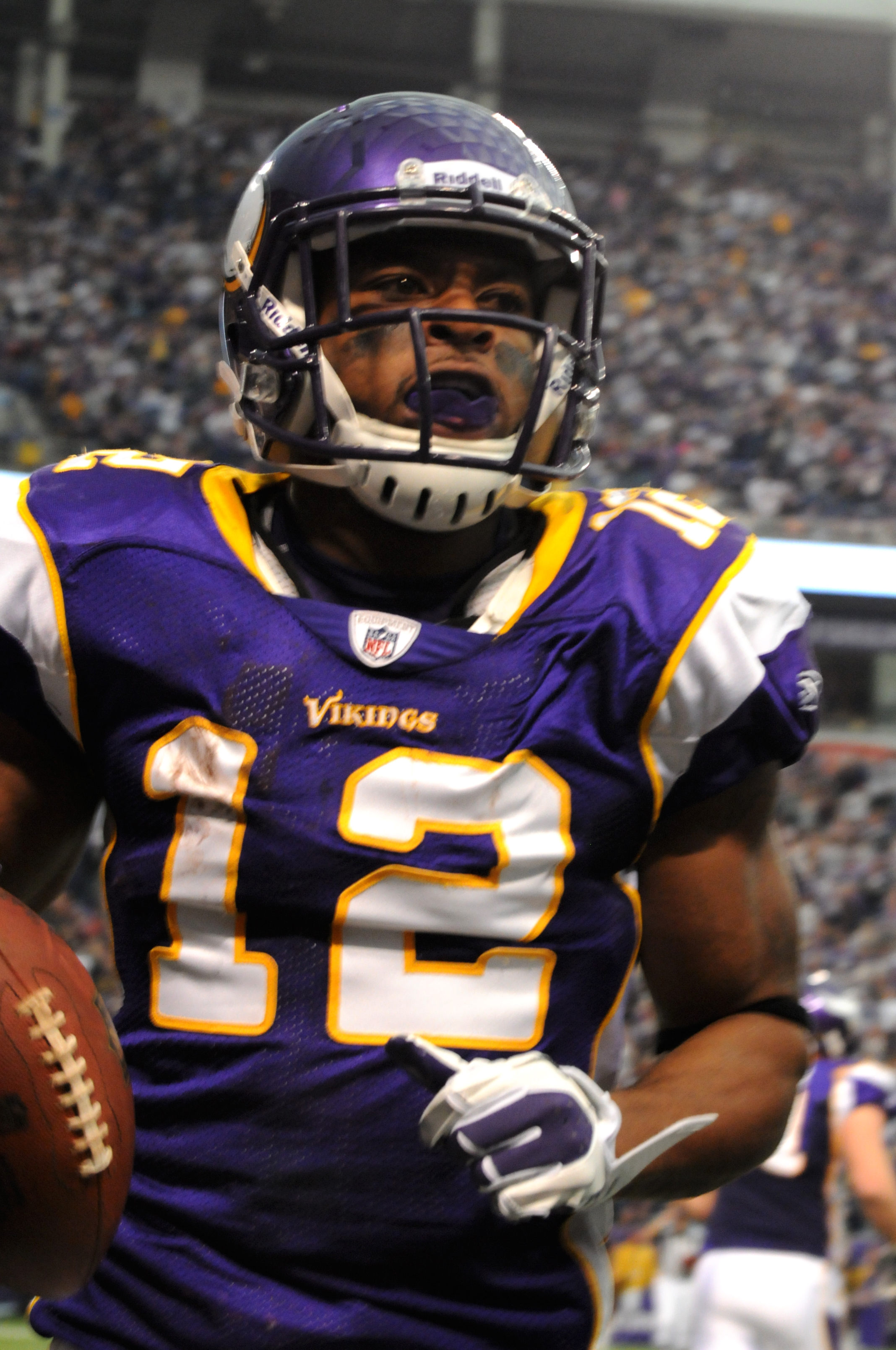 Former Minnesota Vikings WR Percy Harvin